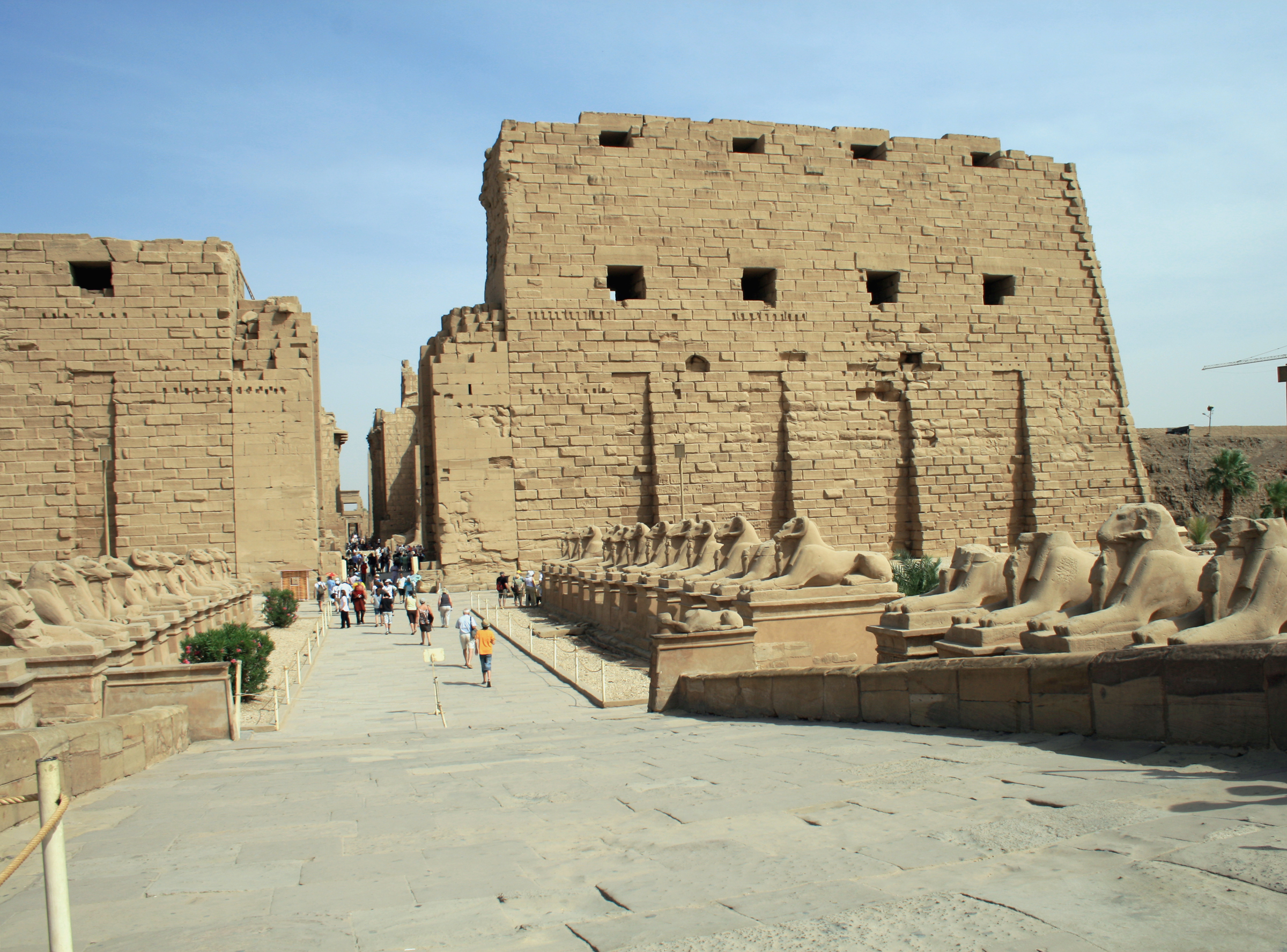 Entrance into Karnak temple complex near Luxor, Egypt